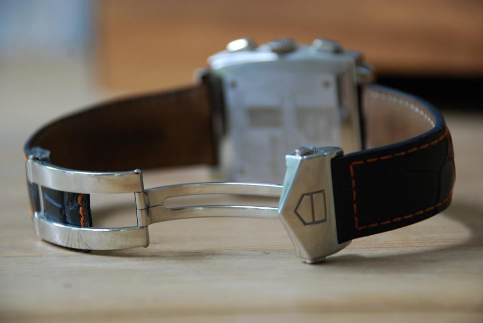 Picture of a wristwatch band, showing in detail the locking mechanism